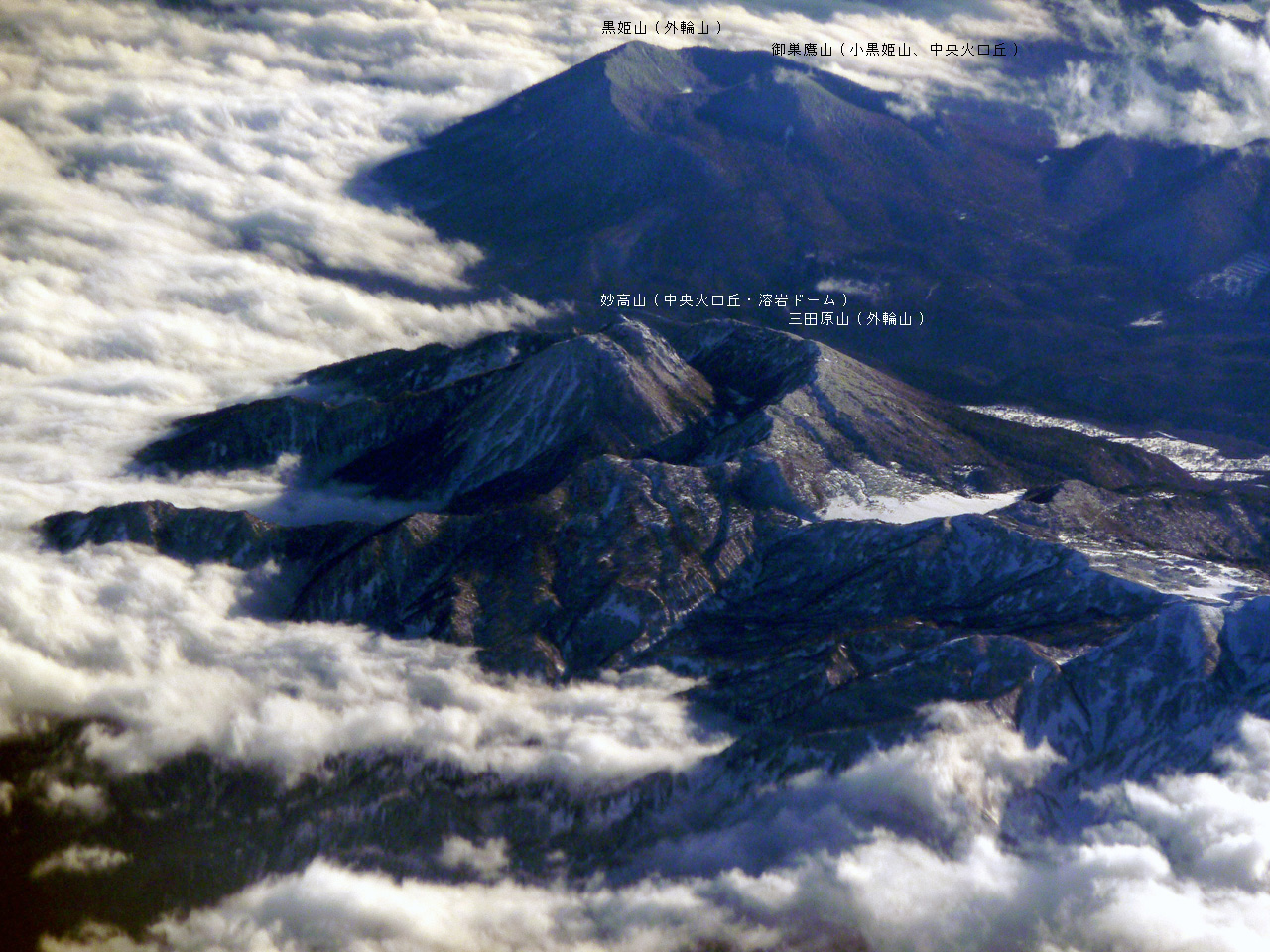 Mount Myōkō (center) and Mount Kurohime (background) seen from the north.